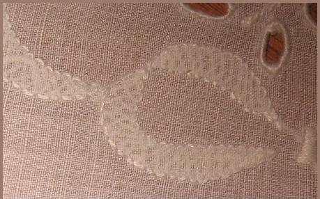 embroidery